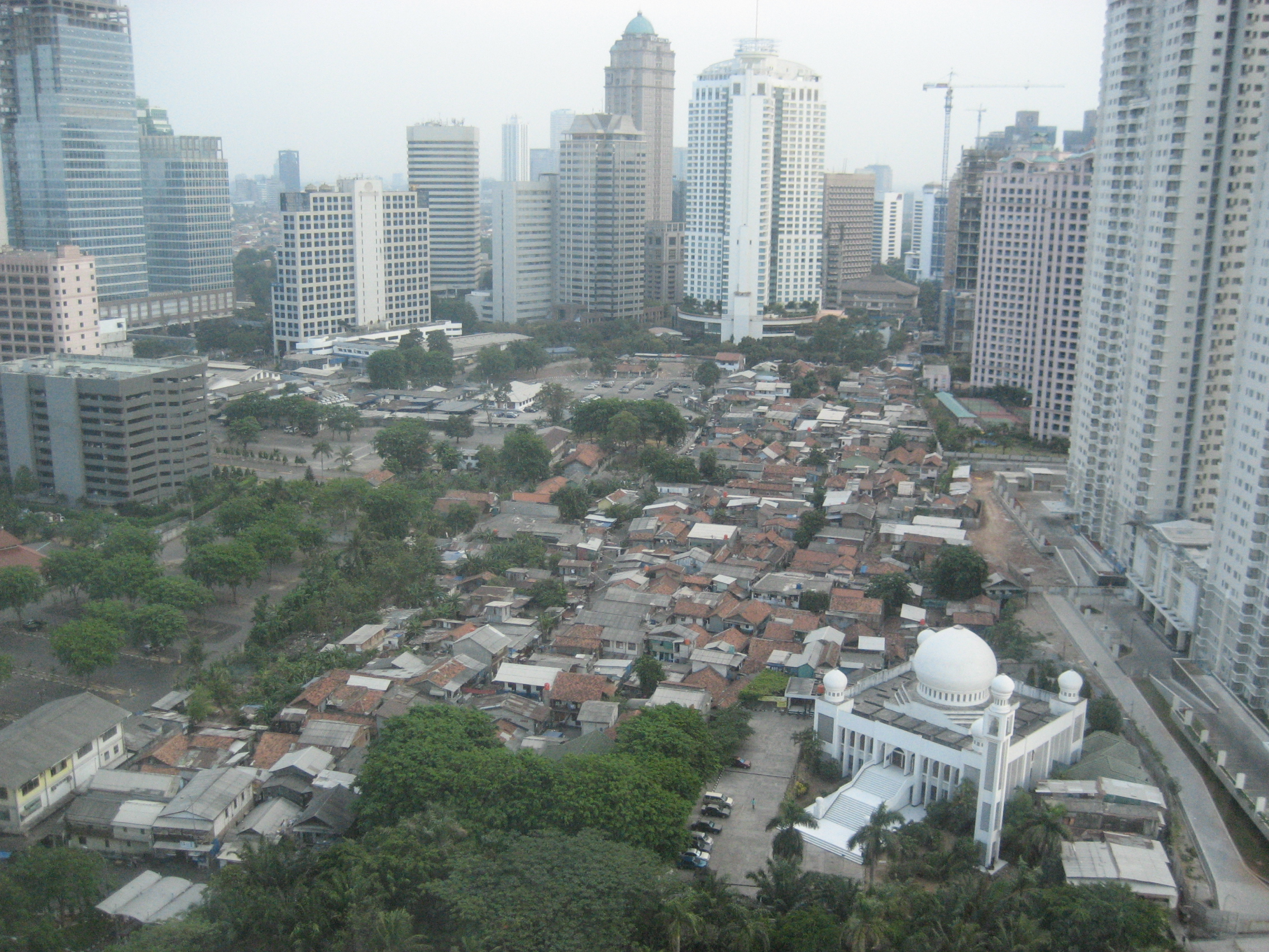 Jakarta view from Shangli-la hotel